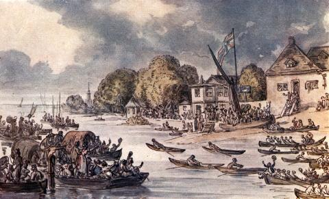 The finish of the Doggett's Coat and Badge rowing race. Painting by by Thomas Rowlandson (1756-1827). This work is in the public domain in its country of origin and other countries and areas where the copyright term is the author's life plus 70 years or less. You must also include a United States public domain tag to indicate why this work is in the public domain in the United States. Note that a few countries have copyright terms longer than 70 years: Mexico has 100 years, Jamaica has 95 years, Colombia has 80 years, and Guatemala and Samoa have 75 years. This image may not be in the public domain in these countries, which moreover do not implement the rule of the shorter term. Côte d'Ivoire has a general copyright term of 99 years and Honduras has 75 years, but they do implement the rule of the shorter term. Copyright may extend on works created by French who died for France in World War II (more information), Russians who served in the Eastern Front of World War II (known as the Great Patriotic War in Russia) and posthumously rehabilitated victims of Soviet repressions (more information). This file has been identified as being free of known restrictions under copyright law, including all related and neighboring rights.